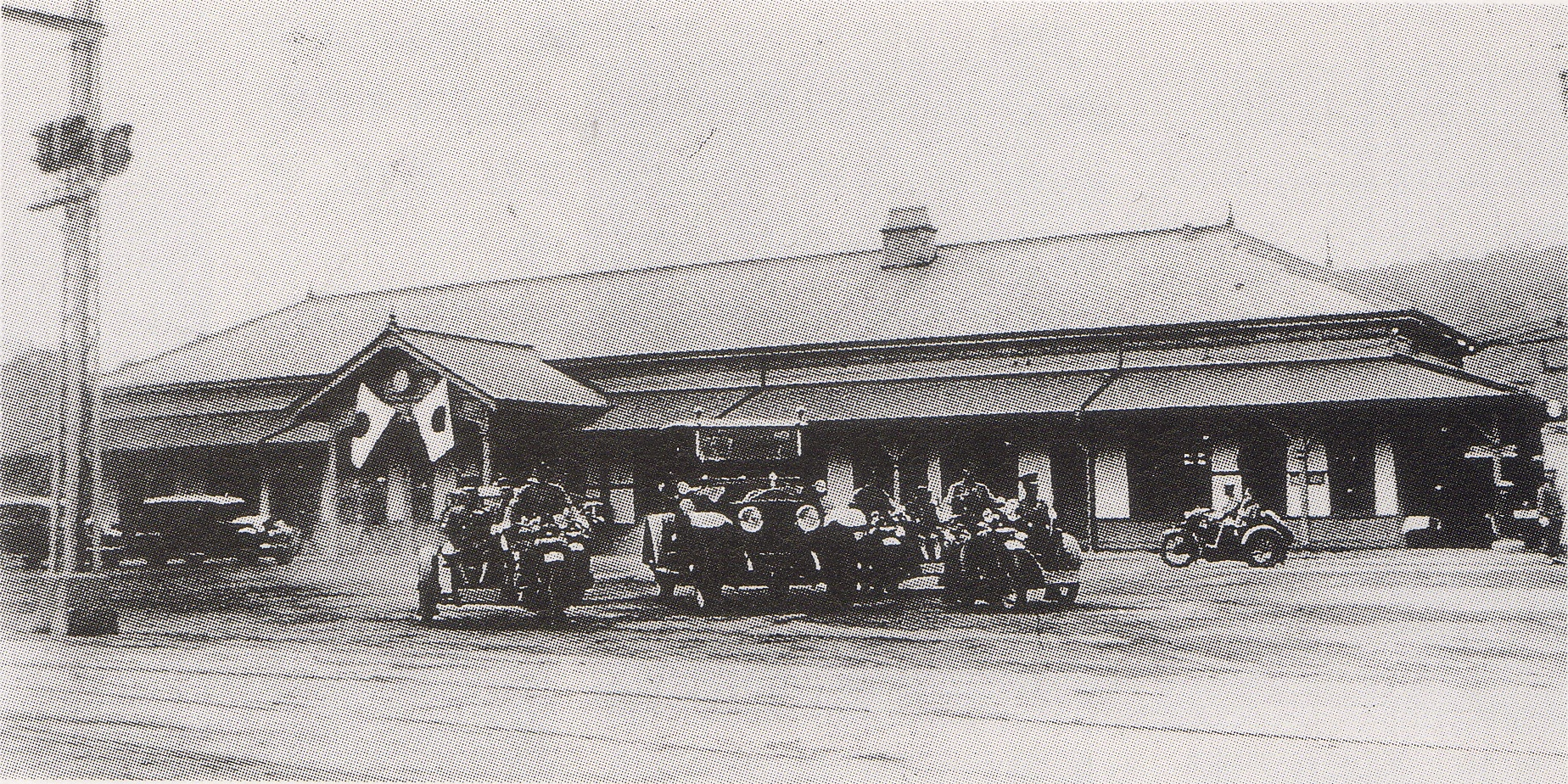 Kumamoto station building in 1931, Kumamoto city Kumamoto prefecture Japan.